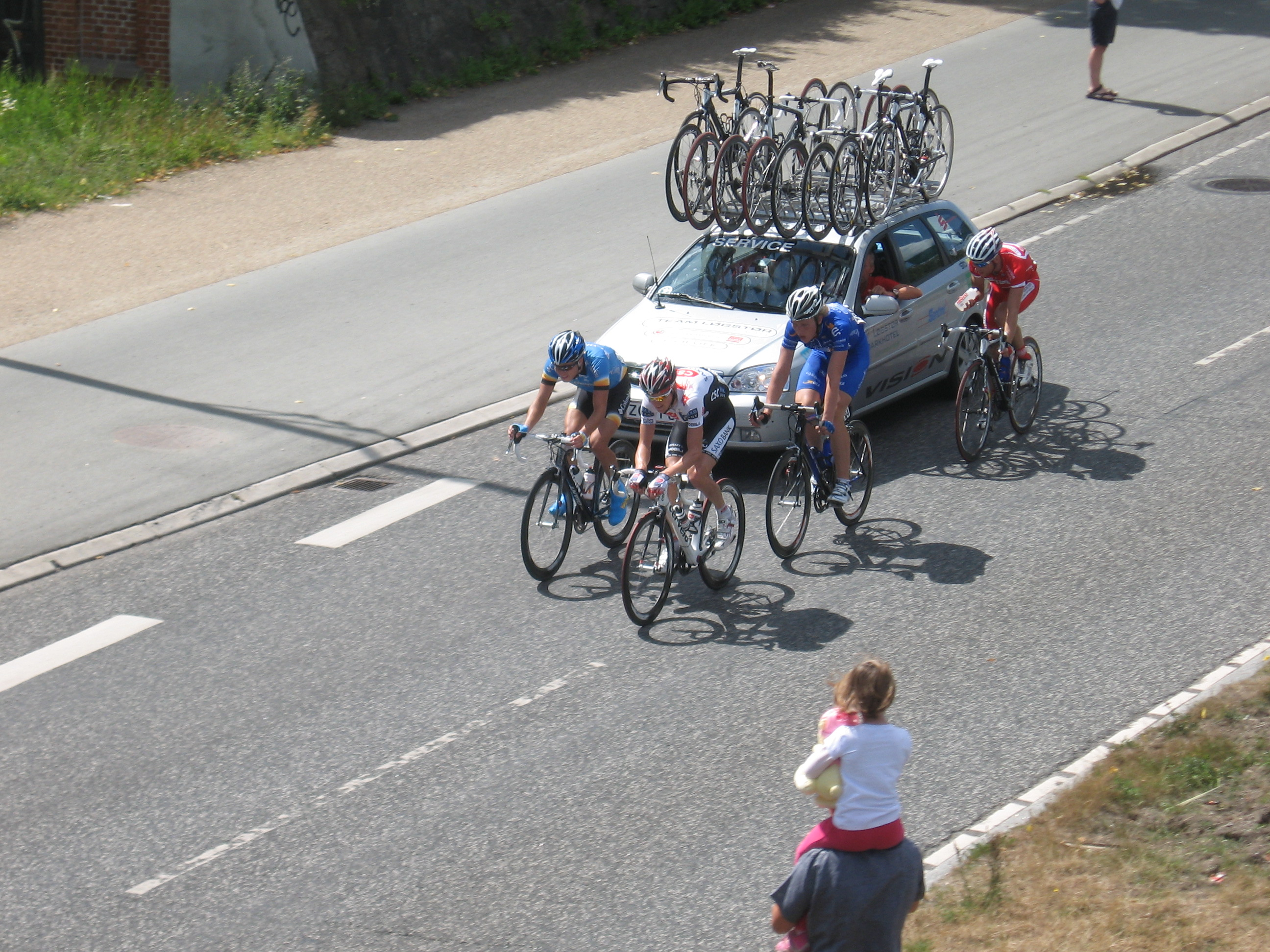 Four escapees (Lars Bak, John Devine, Morten Reckweg og Daniel Holm Foder) pass Vestvolden between the towns Glostrup and Brøndbyøster on Roskildevej racing towards the stage finish at Frederiksberg at the 6th stage og the 2008 PostDanmark Rundt.